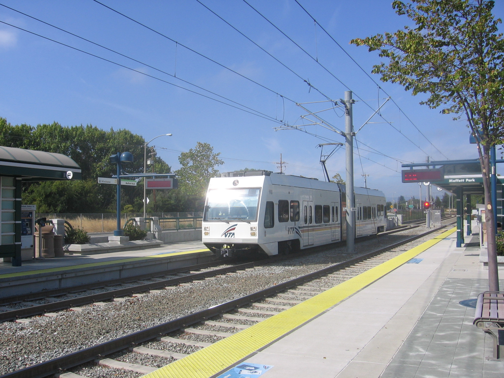 The Moffett Park (VTA) light rail station in Sunnyvale, California, USA. A Winchester bound tram-train is approaching the eastbound platform.